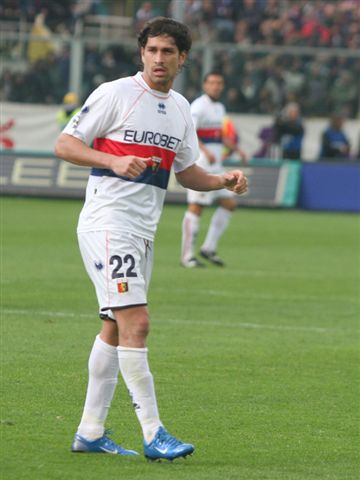 Genoa CFC player, Marco Borriello